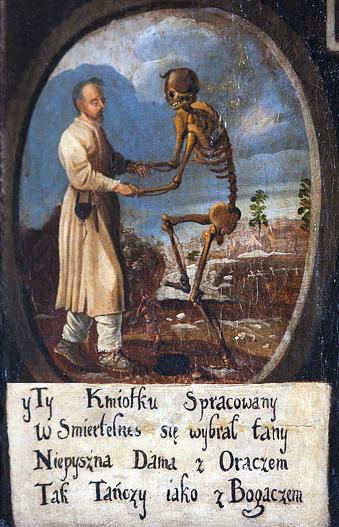 The Dance of Death - Peasant.